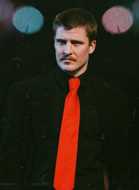 Mateo Chiarino in stage play Cuantos Fantasmas en un Beso